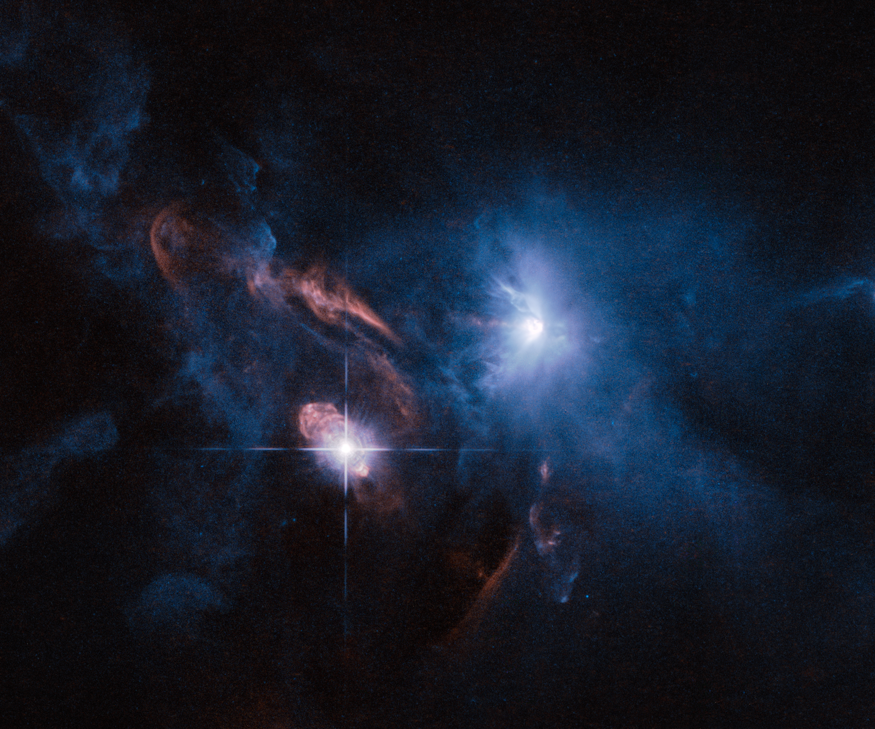 Jets, bubbles and bursts of light in Taurus - The NASA/ESA Hubble Space Telescope has snapped a striking view of a multiple star system called XZ Tauri, its neighbour HL Tauri and several nearby young stellar objects. XZ Tauri is blowing a hot bubble of gas into the surrounding space, which is filled with bright and beautiful clumps that are emitting strong winds and jets. These objects illuminate the region, creating a truly dramatic scene. About the Object Name: LDN 1551, XZ Tauri Type: • Local Universe : Star : Evolutionary Stage : Young Stellar Object • Local Universe : Nebula : Appearance : Dark • X - Stars Images/Videos • X - Nebulae Images/Videos Distance: 450 light years Colours & filters Band Wavelength Telescope Optical H-alpha 658 nm Hubble Space Telescope ACS Optical R 625 nm Hubble Space Telescope ACS .